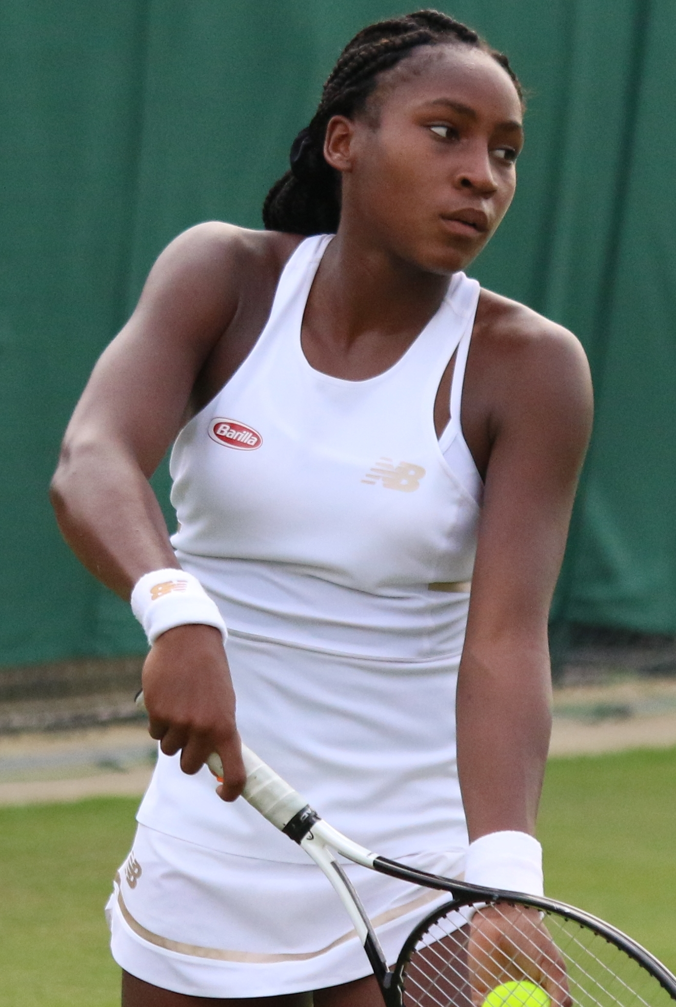 2019 Wimbledon Qualifying Tournament.